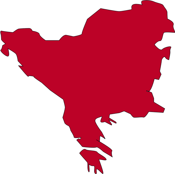 Wider geo-political region of Balkan